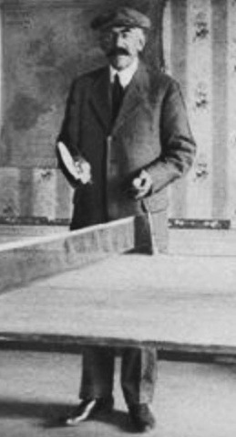 Suzanne Lenglen (left: with a tennis racket; right: with her father at a ping pong table)